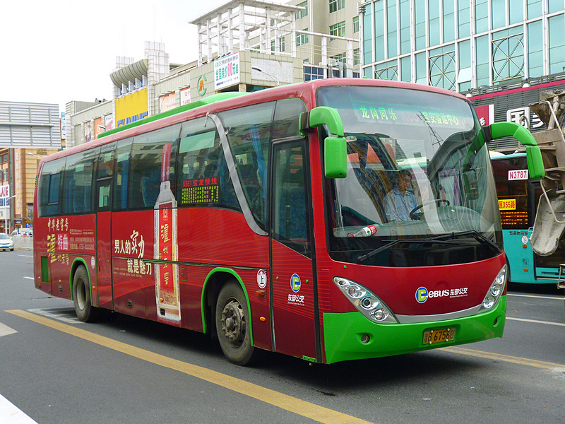 Shenzhen Bus Route K651